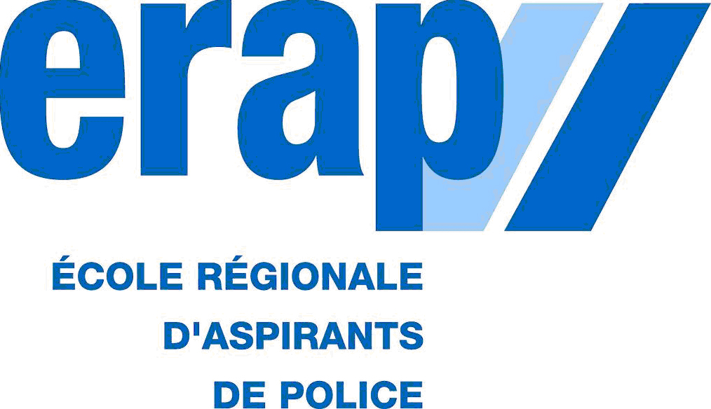 ERAP's logo